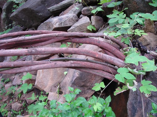 Ventilago is used as important Medicinal Plant in Indian Traditional Healing